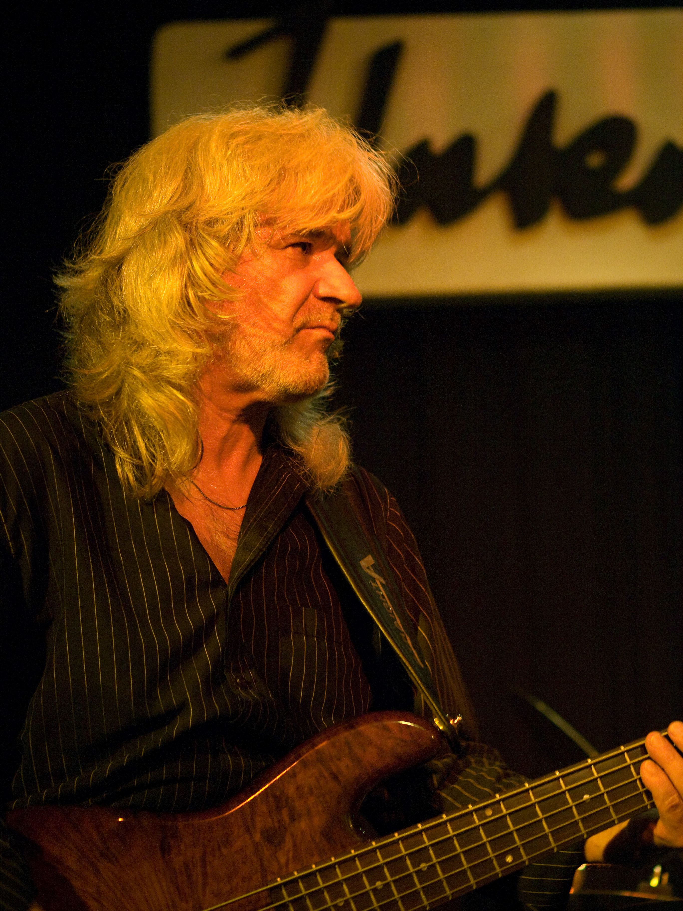 Wolfgang Schmid, electric bass, picture taken in Jazz club "Unterfahrt" in Munich/Germany